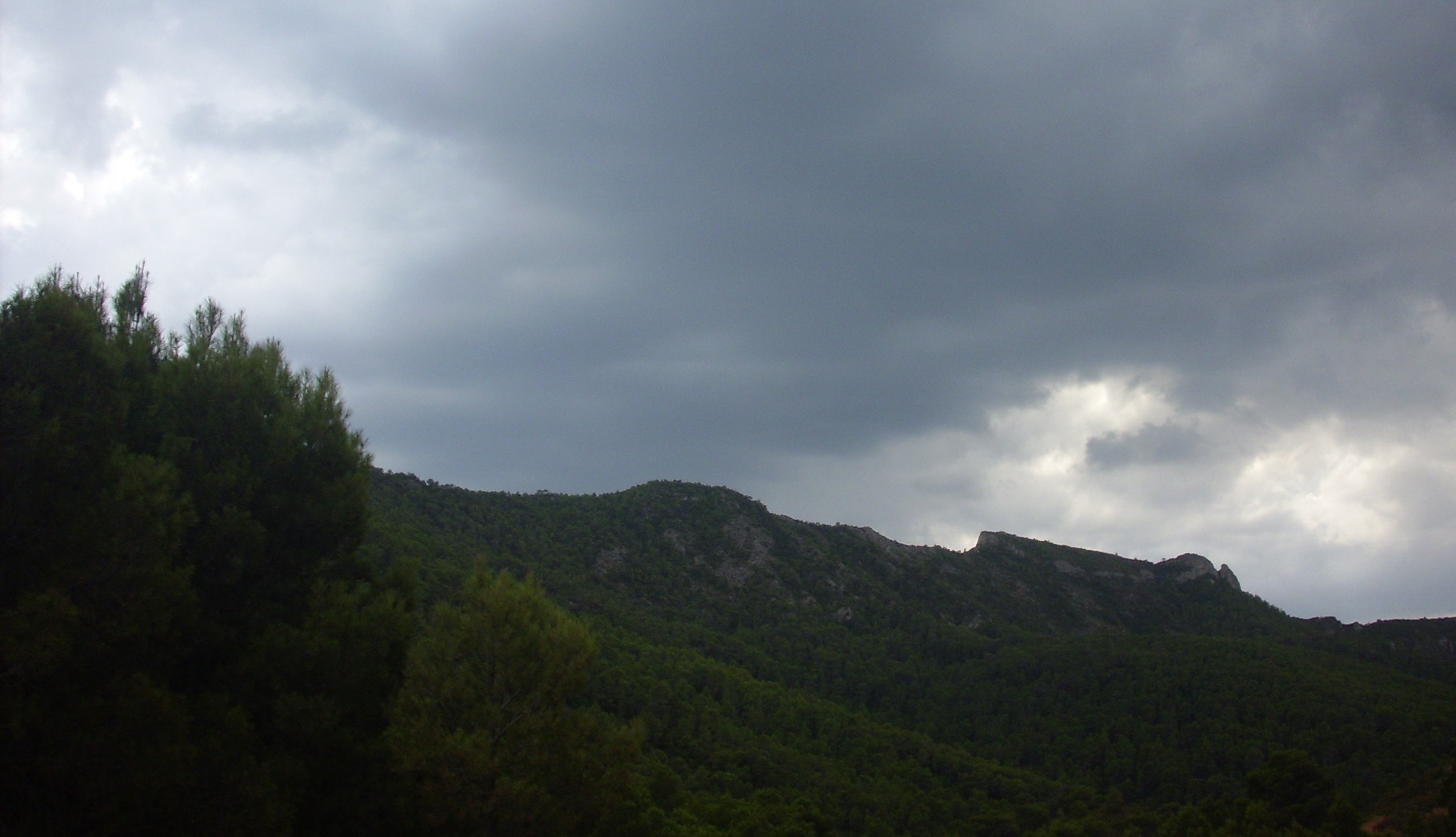 The Tormo seen from the old path of La Figuera (El Priorat, Catalan Countries), in the municipality of La Torre de l'Espanyol (La Ribera d'Ebre).